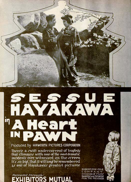 Ad for the American drama film A Heart in Pawn (1919) with Sessue Hayakawa and Tsuru Aoki, on page 1596 of the March 22, 1919 Moving Picture World.